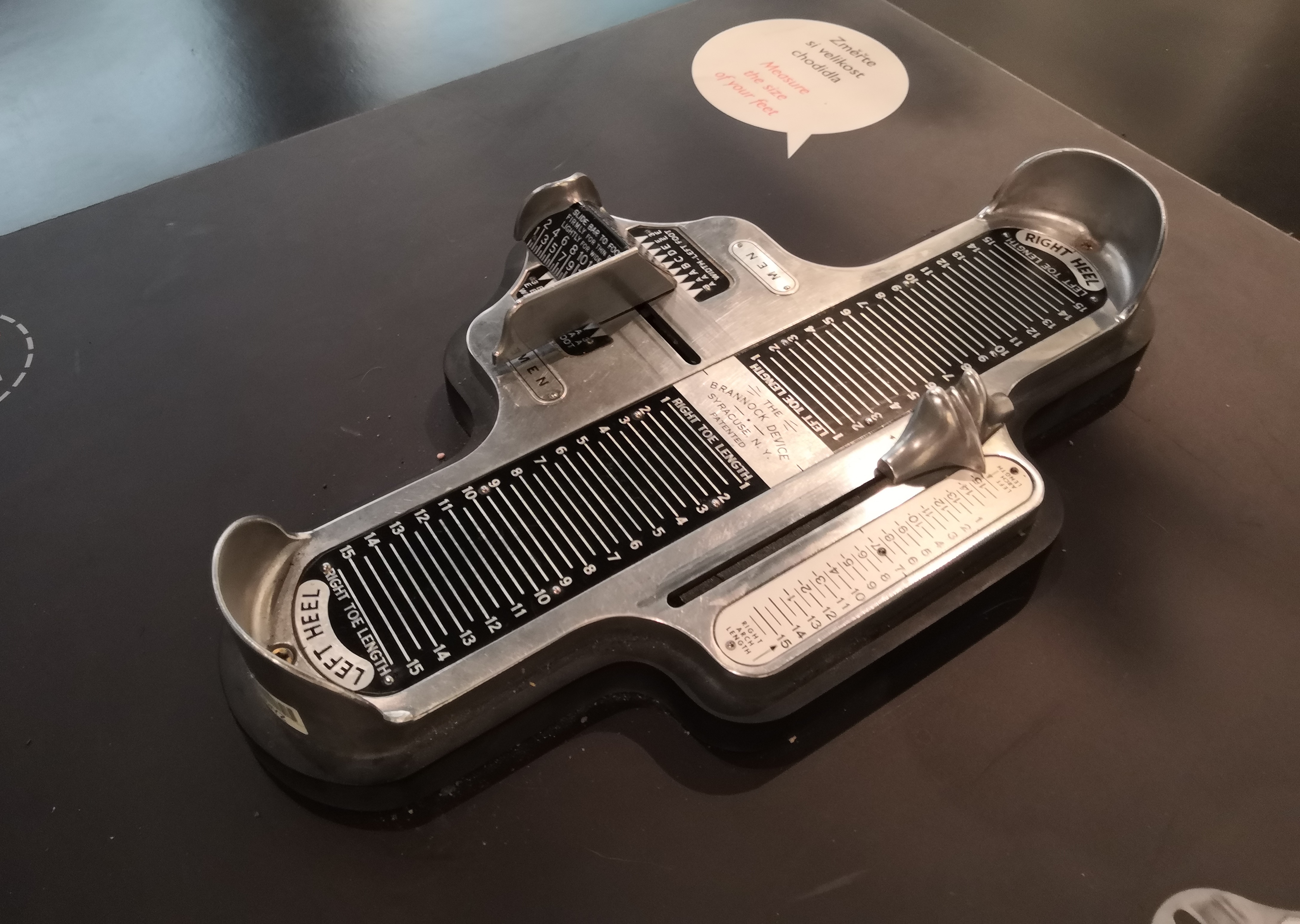 Zlín, Czechia, shoe museum. Brannock Measuring Device for Men´s feet.